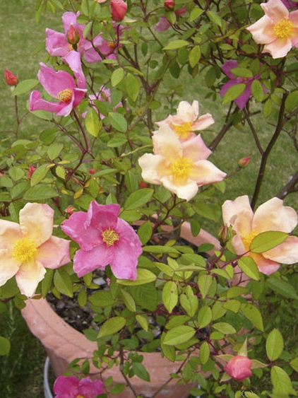 Rose 'Mutabilis' China old Chinese variety